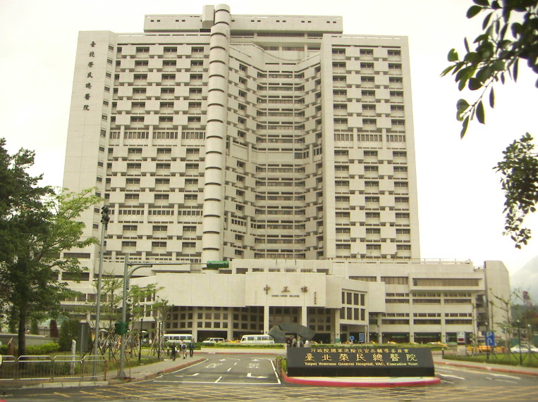 Chung-cheng Building, Taipei Veterans General Hospital.